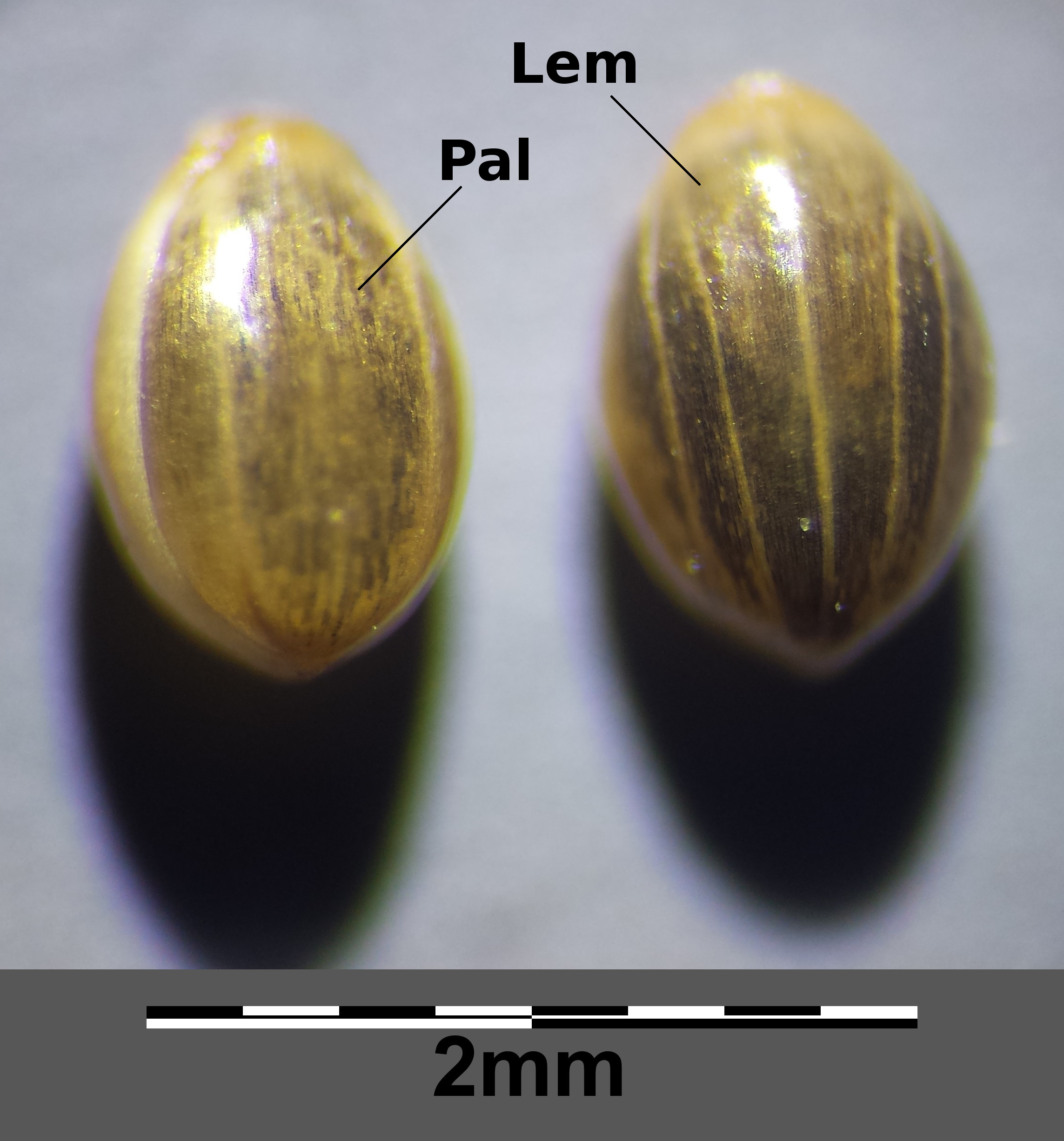 Caryopses with lemma (Lem) and palea (Pal) Taxonym: Panicum capillare ss Fischer et al. EfÖLS 2008 ISBN 978-3-85474-187-9 Location: Grellgasse, Vienna-Floridsdorf - ca. 160 m a.s.l. Habitat: slope